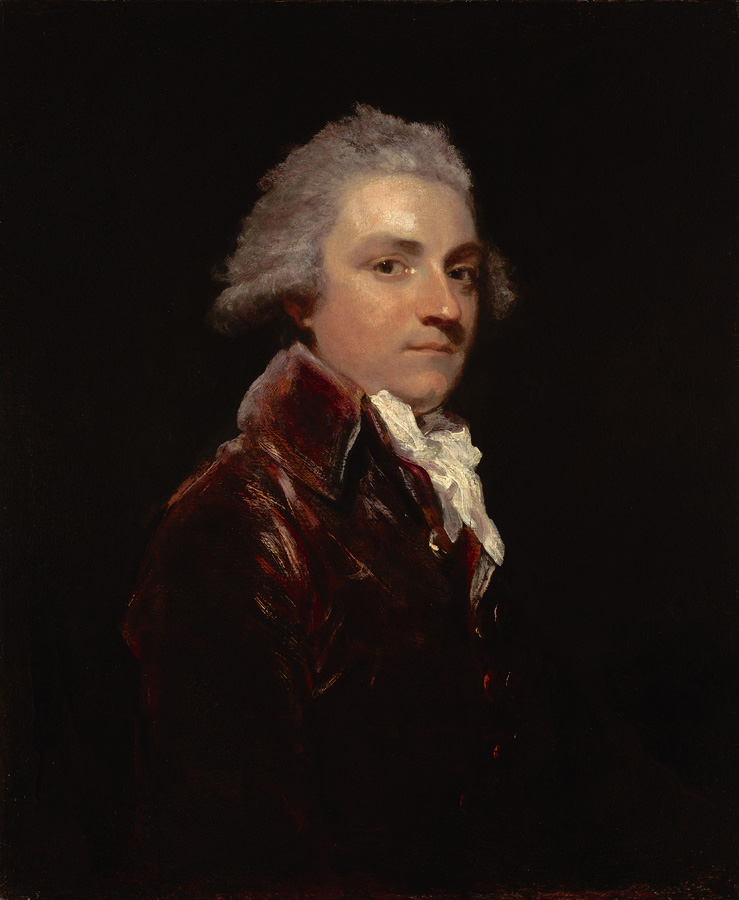 Portrait of Wilson Gale-Braddyll